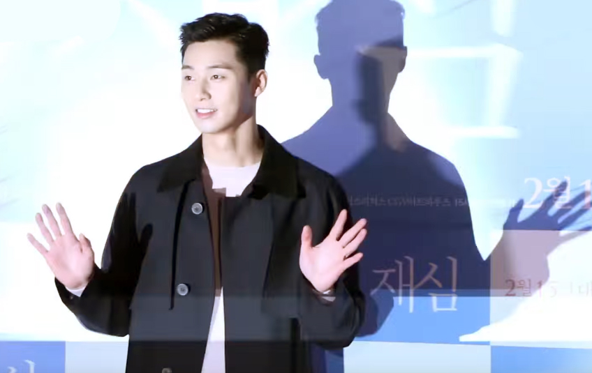 Park Seo-joon at film New Trial debut (2017)